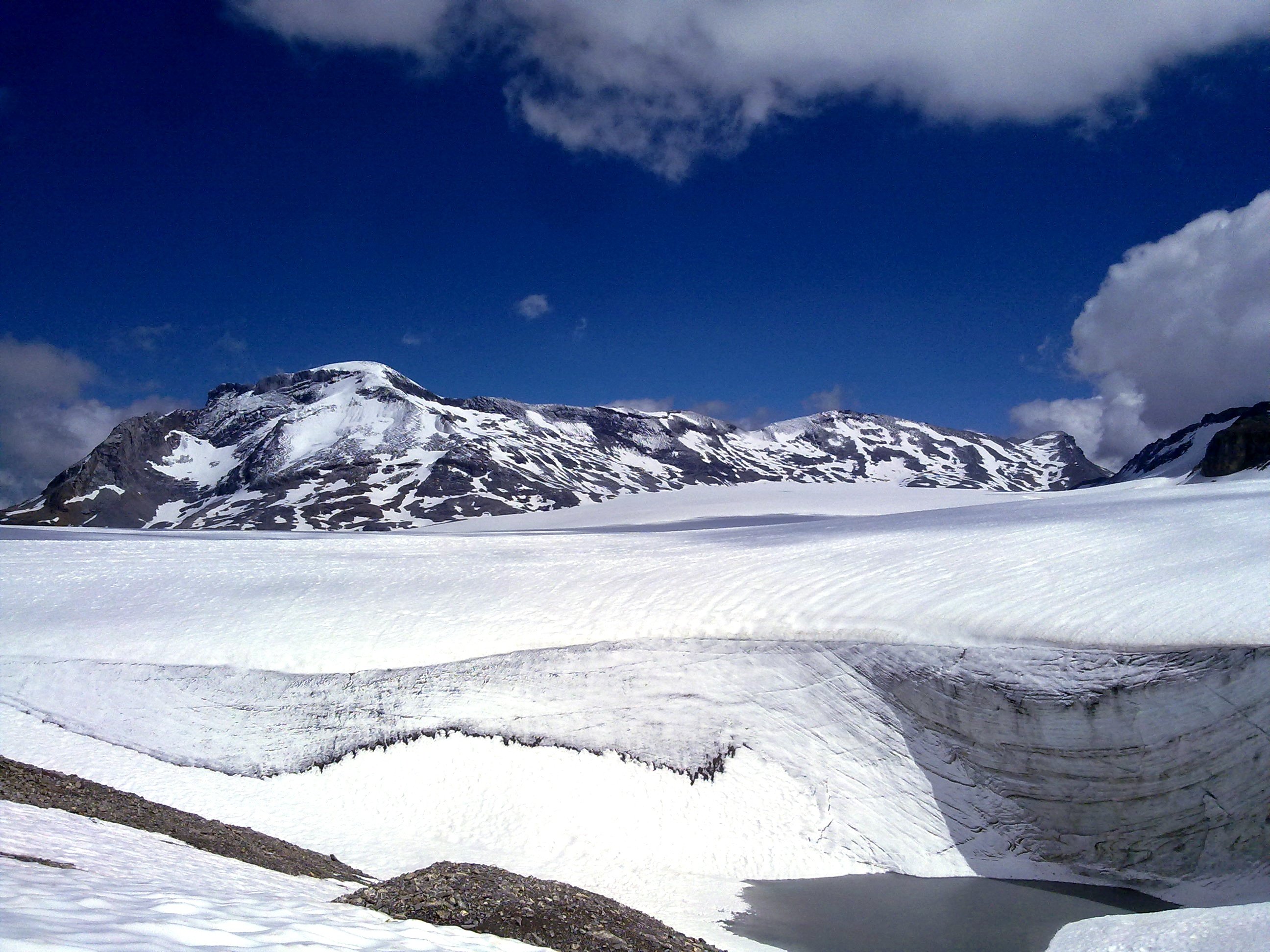 Wildstrubel from Plaine Morte Glacier (near Pointe de Vatseret)